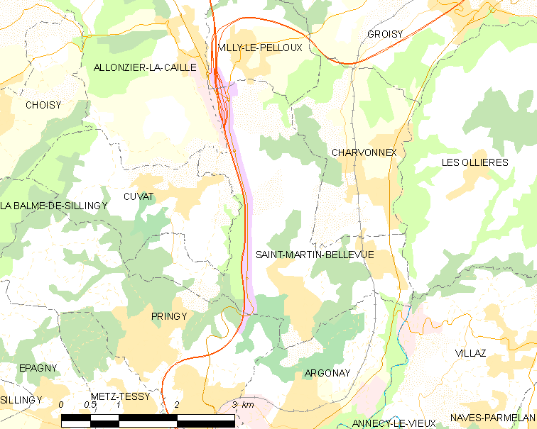 Map of French municipality Saint-Martin-Bellevue